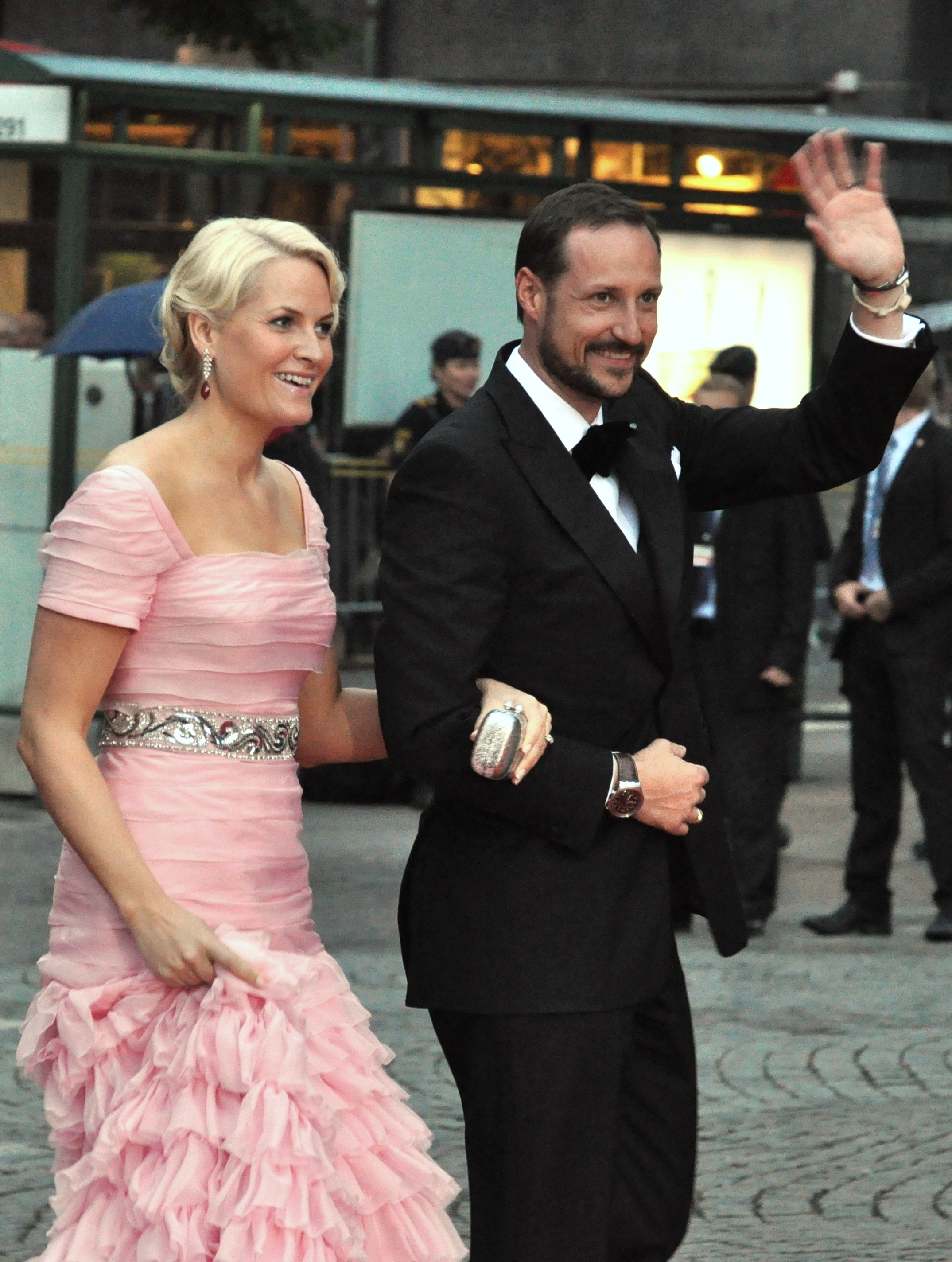 Wedding of Victoria, Crown Princess of Sweden, and Daniel Westling; Arrival of members for the Gouvernment and Swedish and foreign guests of hounour to the Riksdag's Gala Performance at Konserthuset